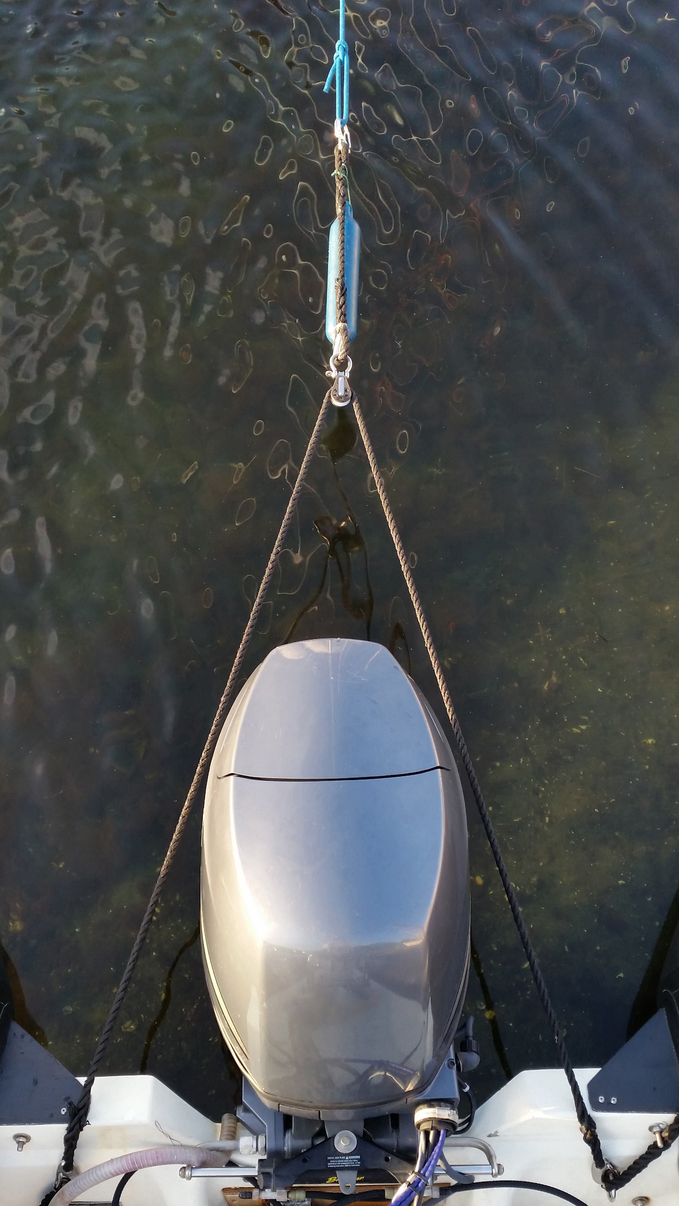 'Crow foot' or 'Bridle'.